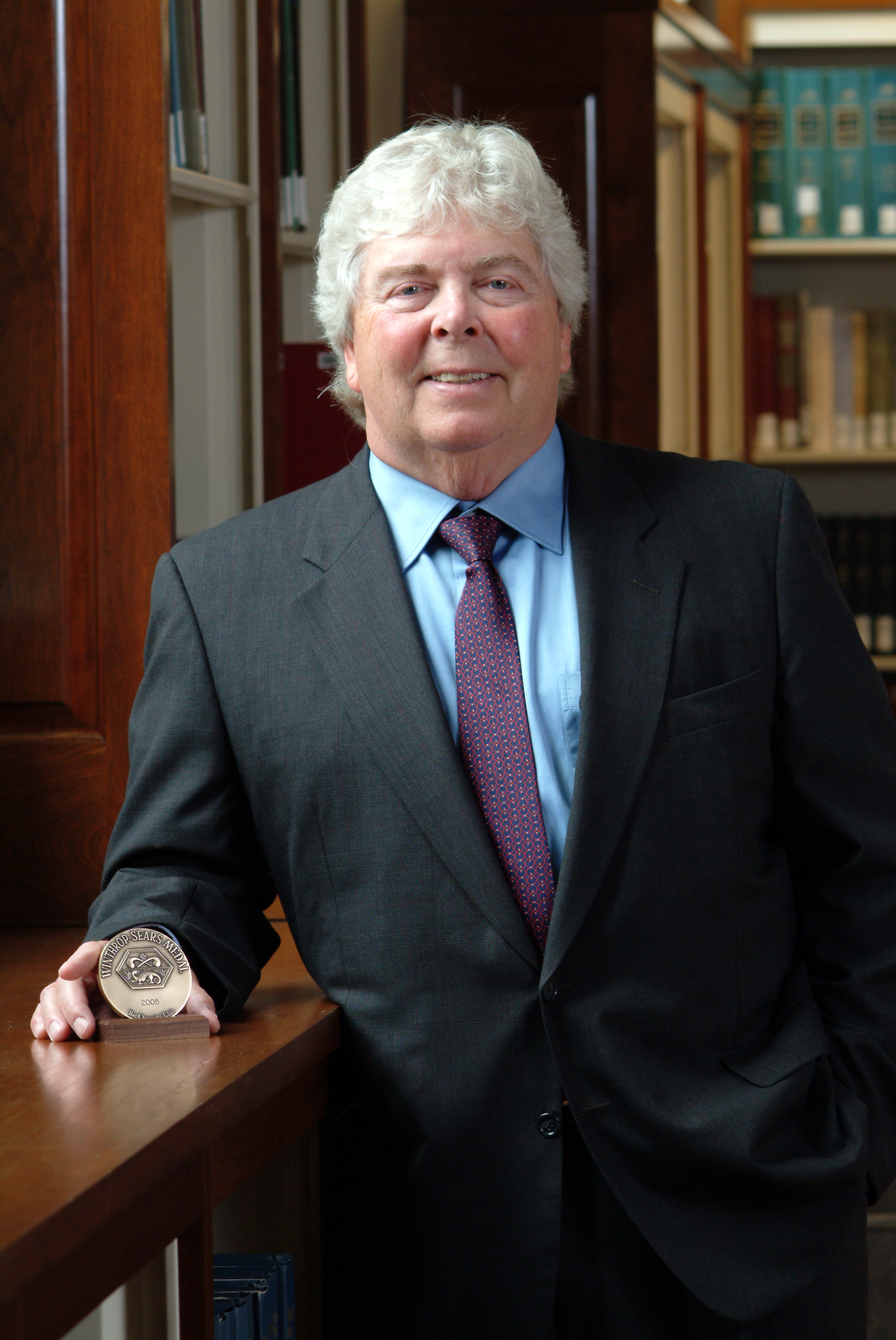 Photograph of Herbert Boyer, chemist and recipient of the 2005 Winthrop-Sears Medal, presented 9 June 2005, at Heritage Day, Chemical Heritage Foundation, Philadelphia, PA, USA.